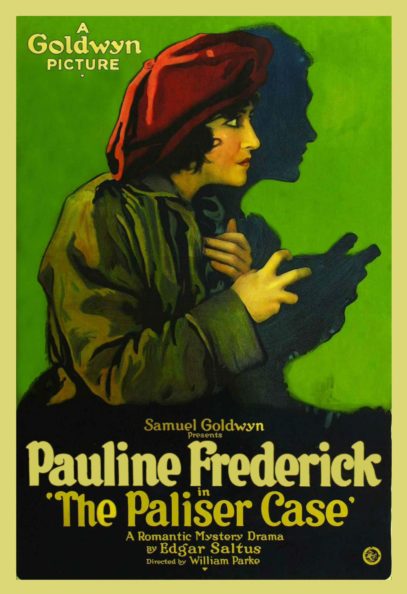 Poster for the 1920 film The Paliser Case with Pauline Frederick.